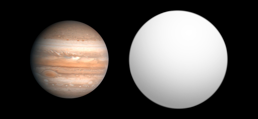 Comparison of best-fit size of the exoplanet HAT-P-5 b with the Solar System planet Jupiter, as reported in the Open Exoplanet Catalogue[1] as of 2010-09-30. ↑ Open Exoplanet Catalogue (2010-09-30). Retrieved on 2010-09-30.